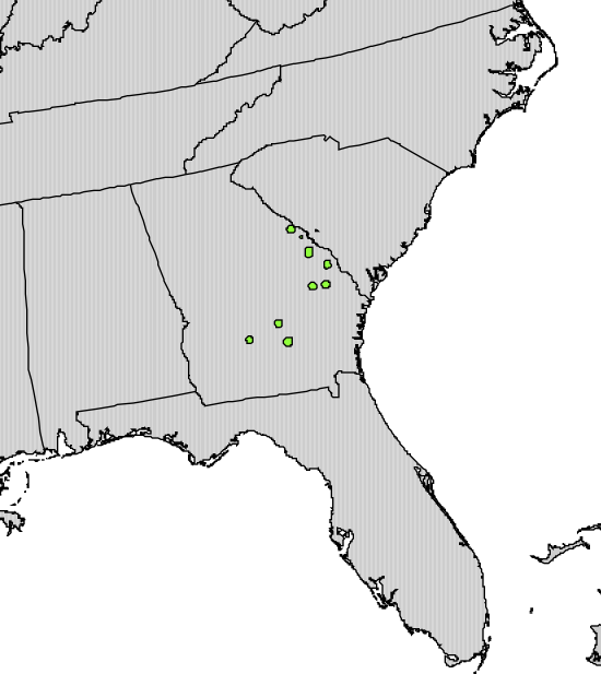 Range map of Elliottia racemosa